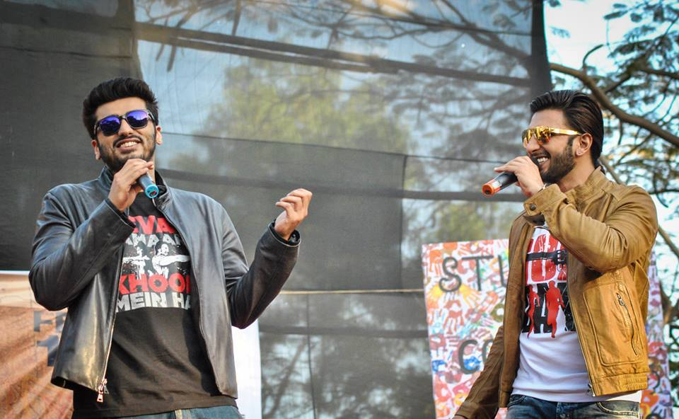 Arjun Kapoor and Ranveer Singh in a college event held in Mumbai, Maharashtra, India.